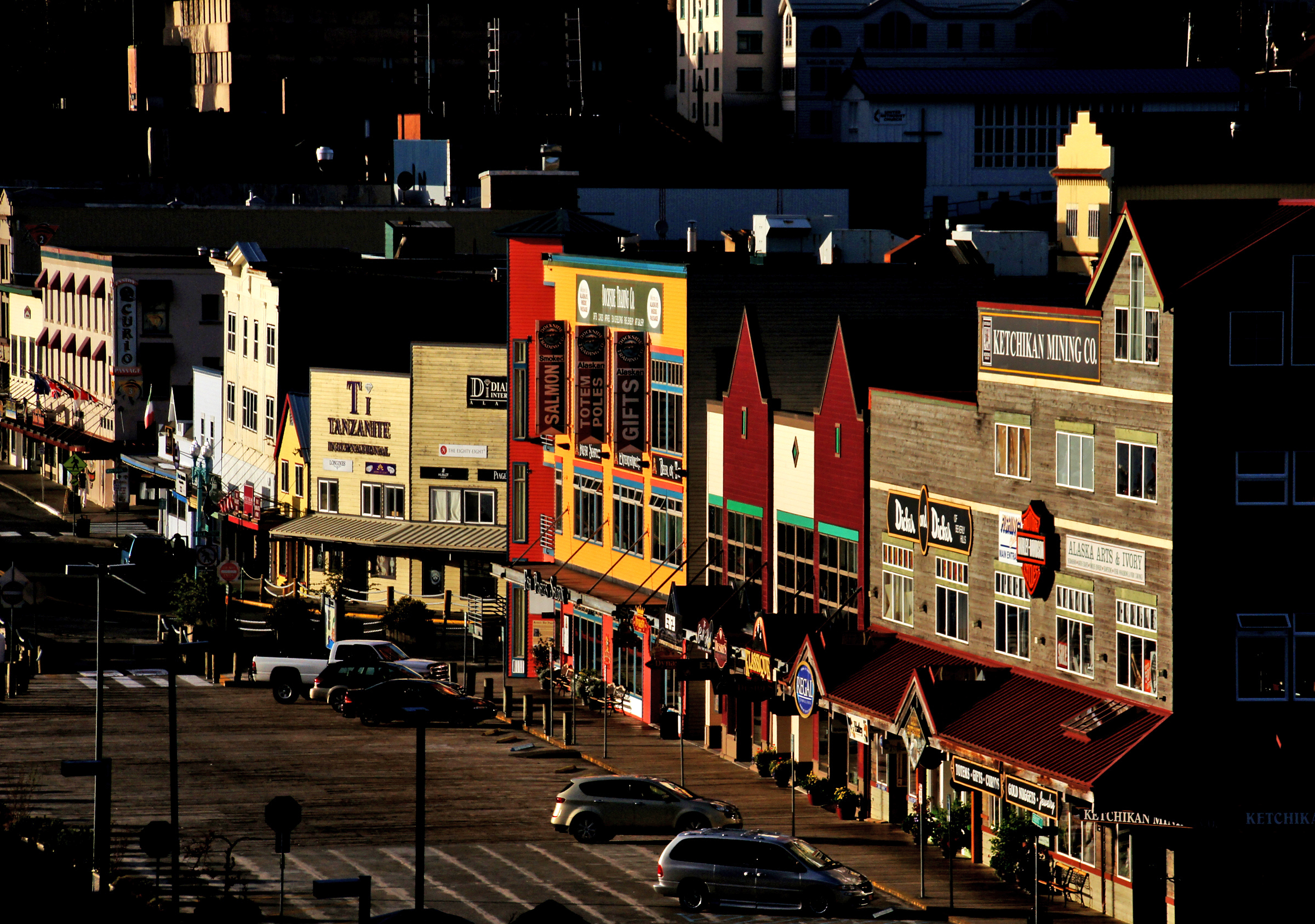 Ketchikan is a city in Ketchikan Gateway Borough, Alaska, United States, the southeasternmost city in Alaska. With a population at the 2010 census of 8,050 within the city limits, it is the fifth-most populous city in the state